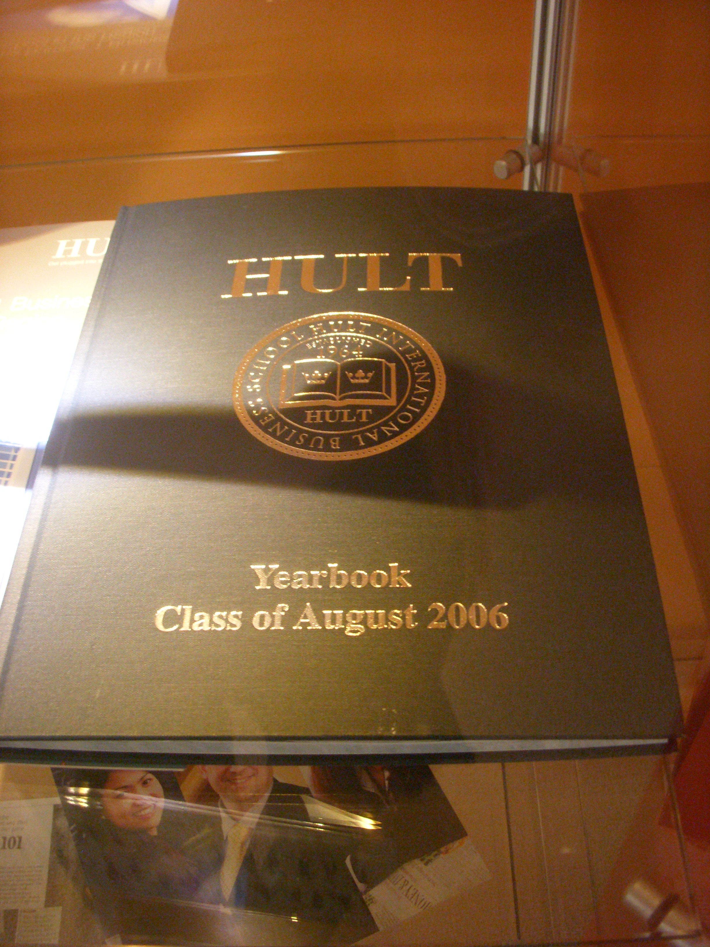 Hult Year Book